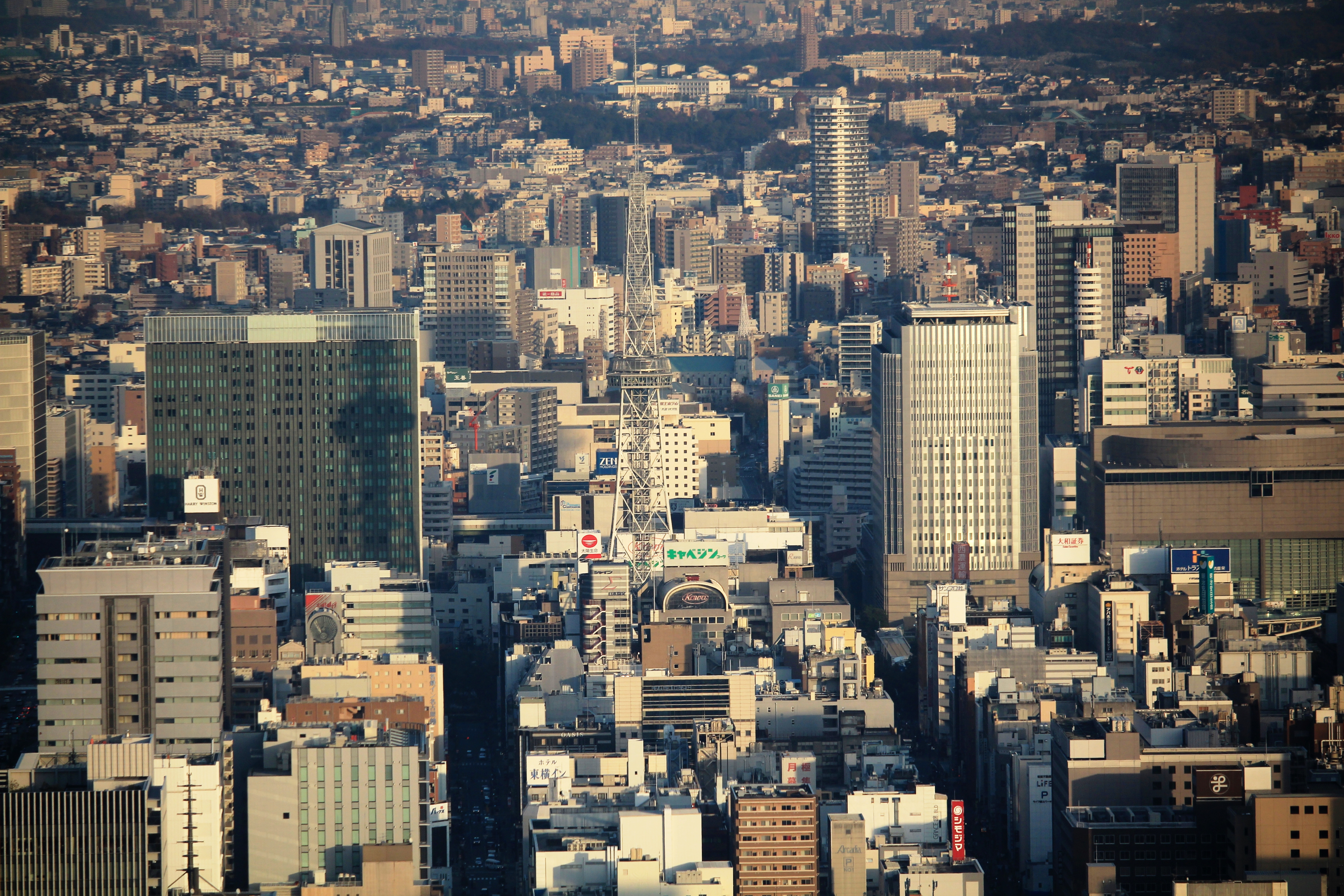 Urbannet Nagoya Building, Nagoya TV Tower, NHK Nagoya Broadcasting Center Building and Aichi Arts Center seen from JR Central Towers in Nagoya, Aichi prefecture, Japan.